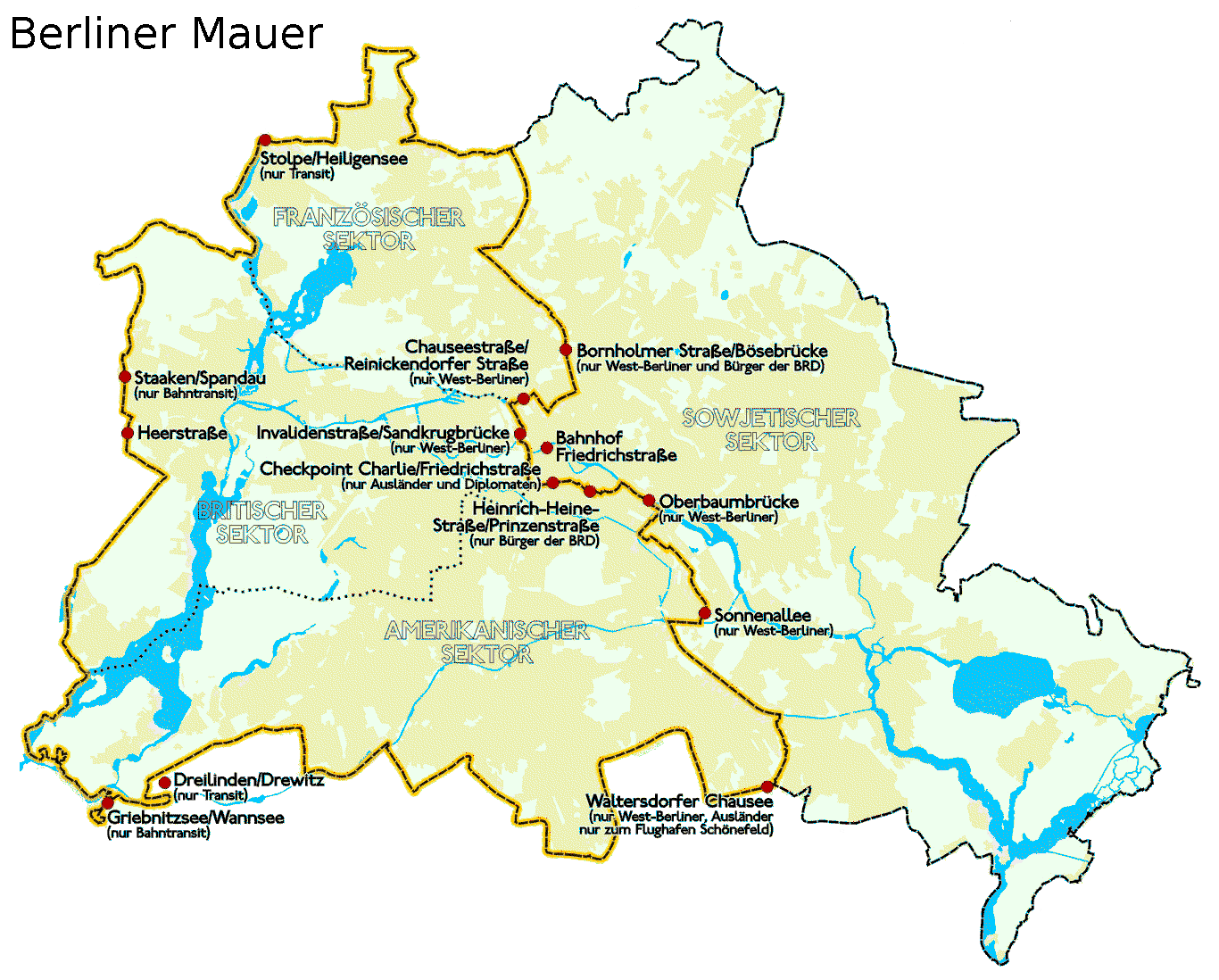 Placement of Berlin Wall and the border of West Berlin before 1989.